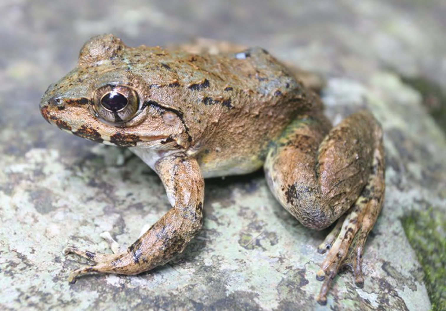 Limnonectes macrocephalus from Dipagsanghan. Photo: MVW.